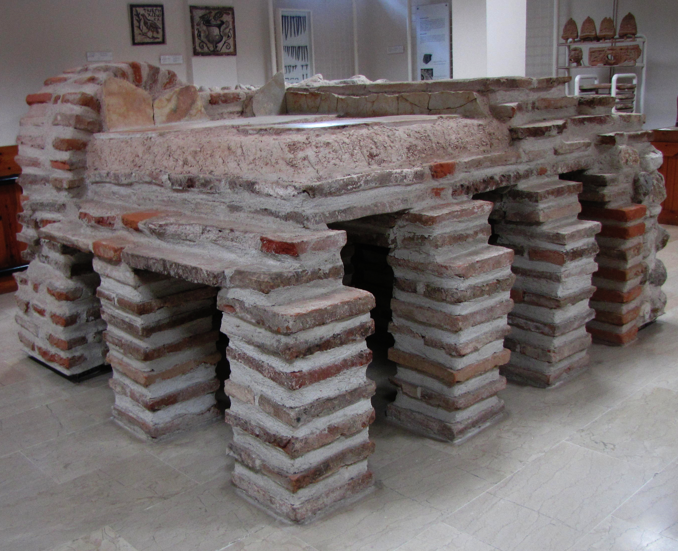 Model of a hypocaust heating system